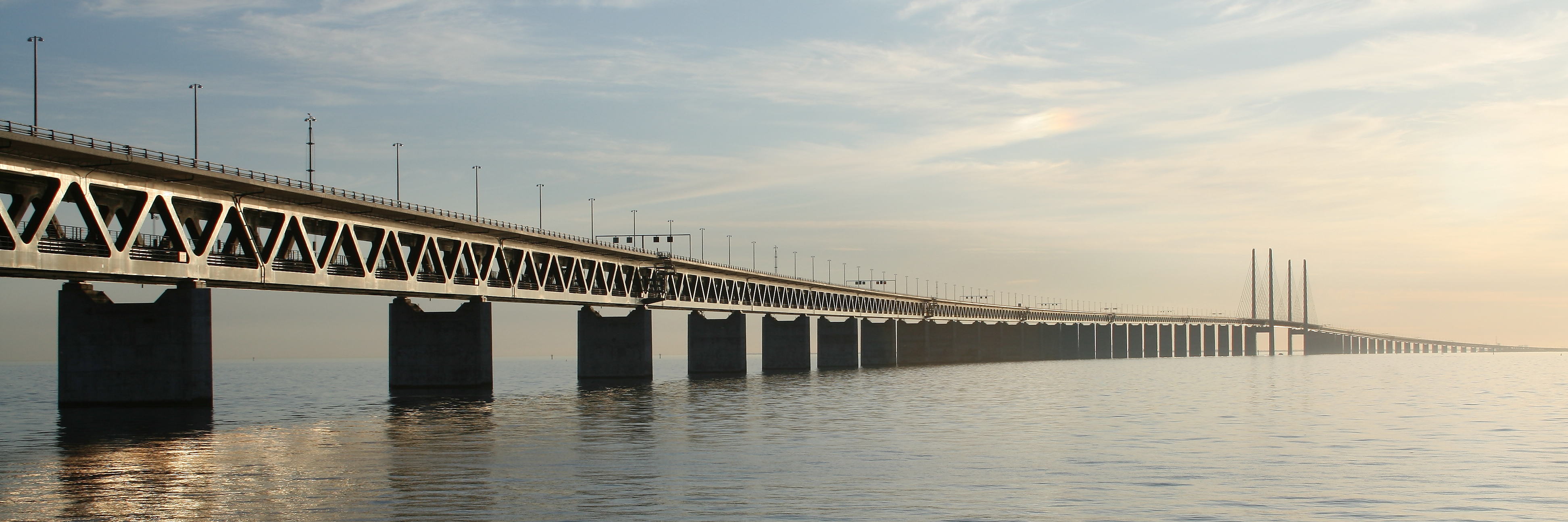 The Øresund Bridge seen from the Swedish side at Lernacken.